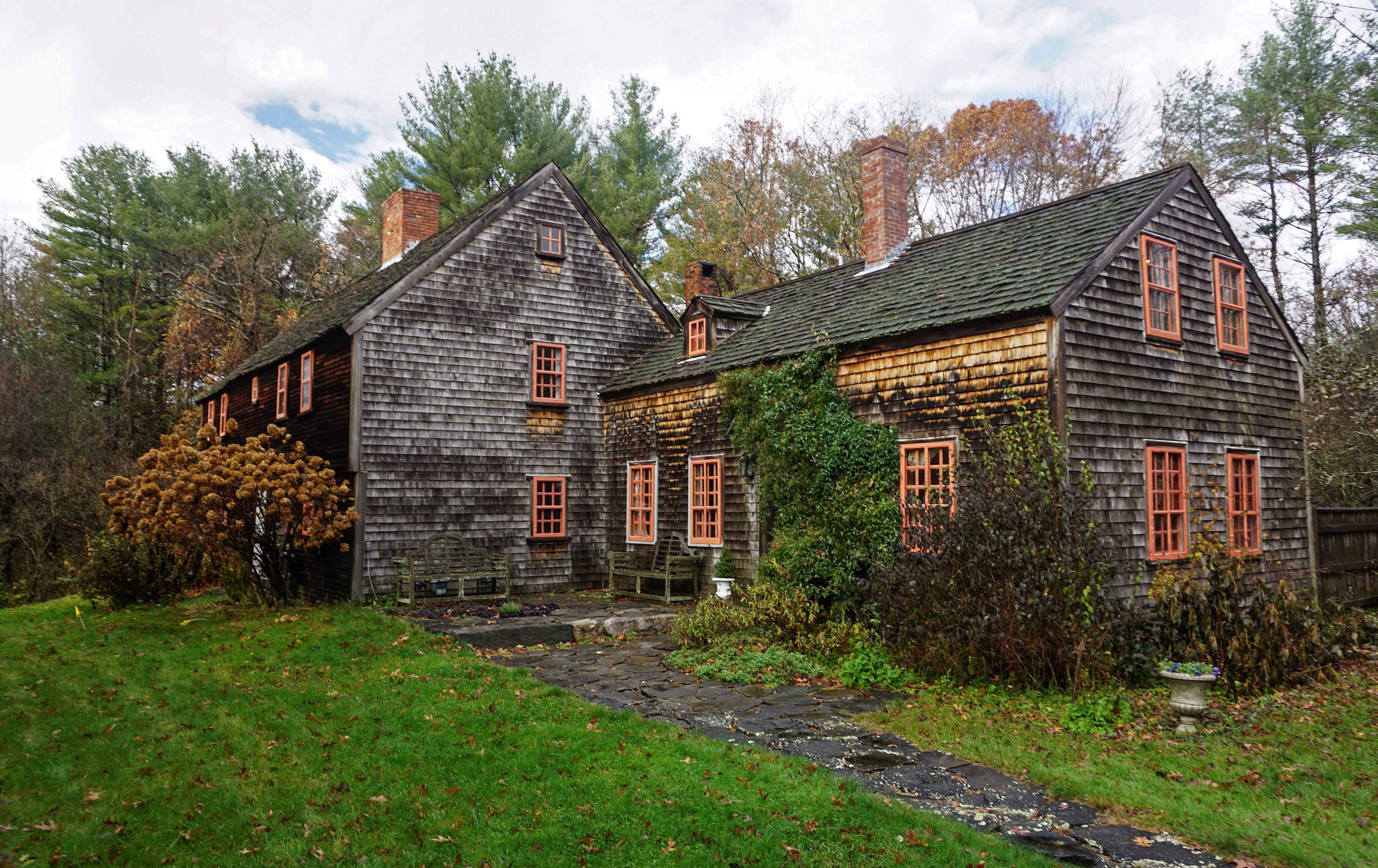 The circa 1694 Dickinson-Pillsbury-Witham House in Georgetown Massachusetts